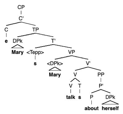 This image shows a syntax tree demonstrating c-command relationships